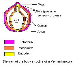 Created by Donald Albury (User:Dalbury) on October 15, 2005 using MS Paint. The image is based on published pictures of the fossils in Astrobiology Magazine and Scientific American and a published description of the animal's presumed body structure in Supporting Online Material from Science magazine.